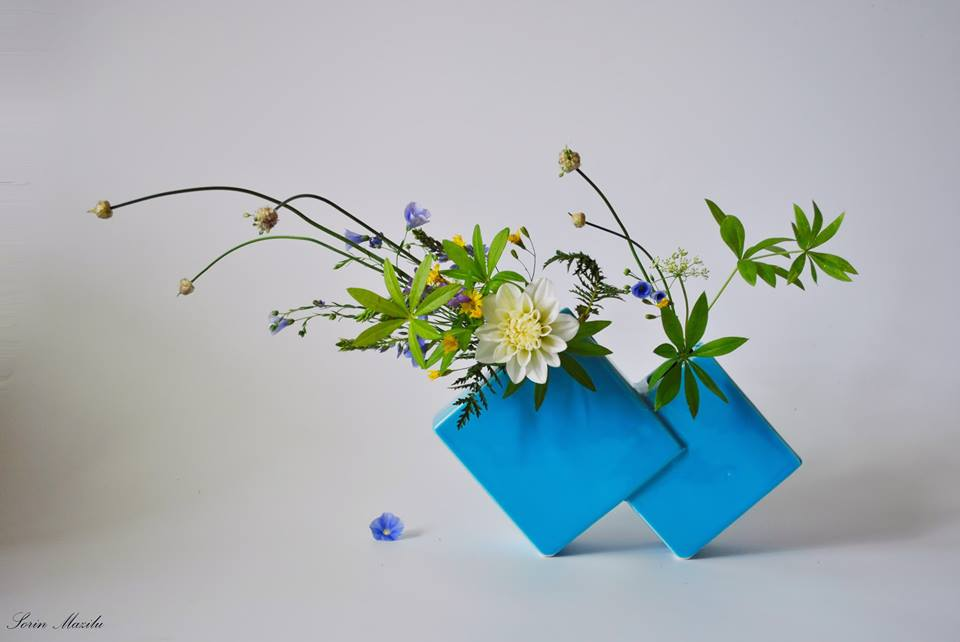 Free Style Ikebana